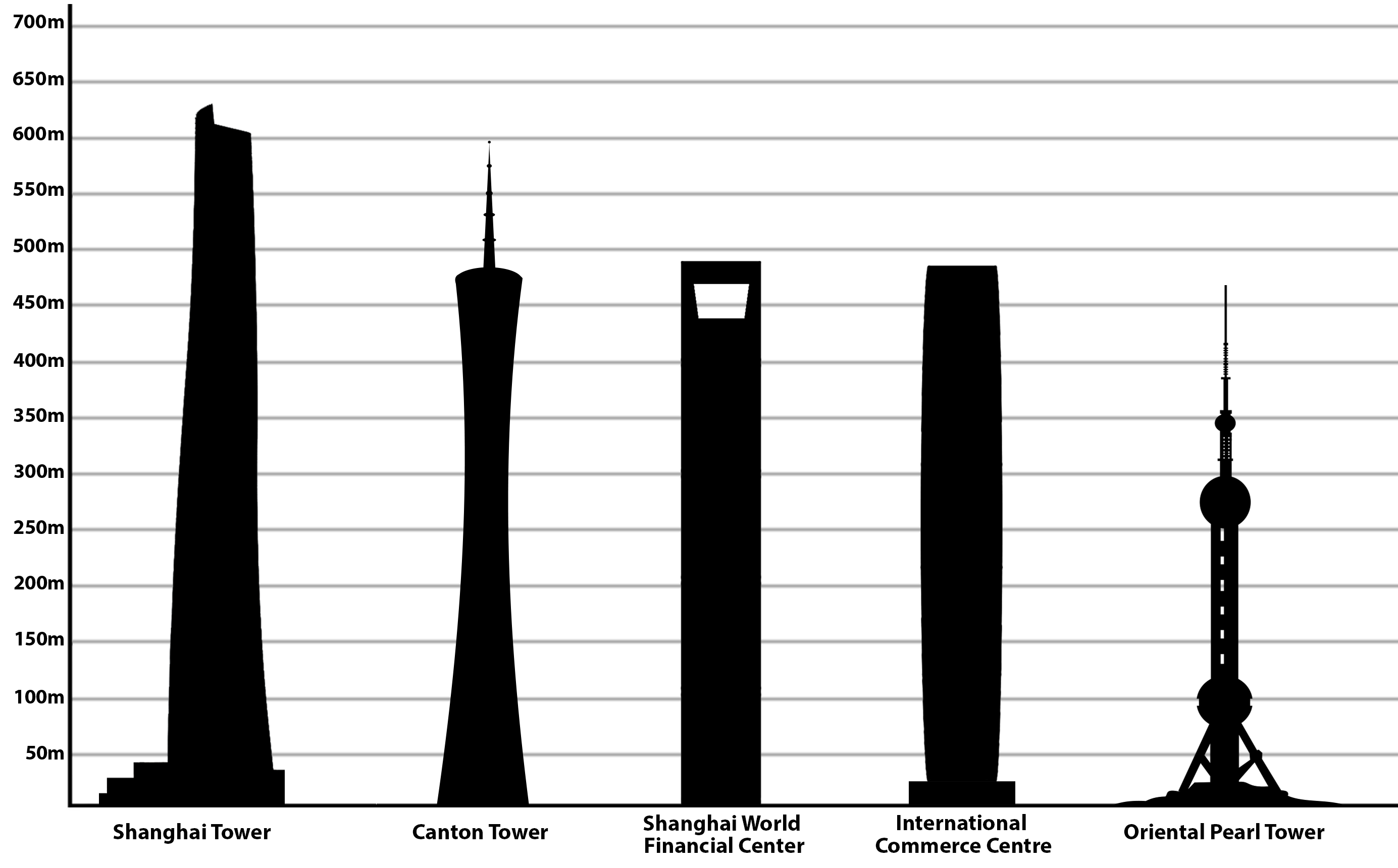 Tallest Structures in China; Used data from .